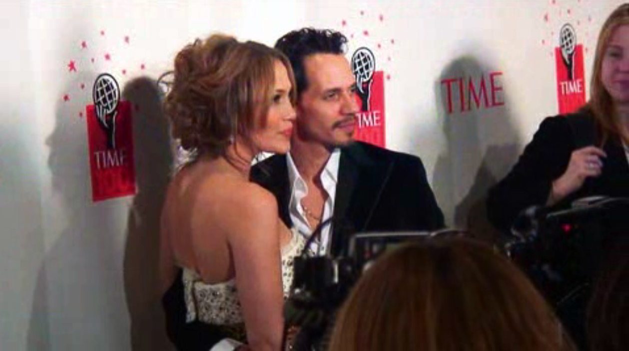 Time 100 2006 gala, Jennifer Lopez and Marc Anthony.